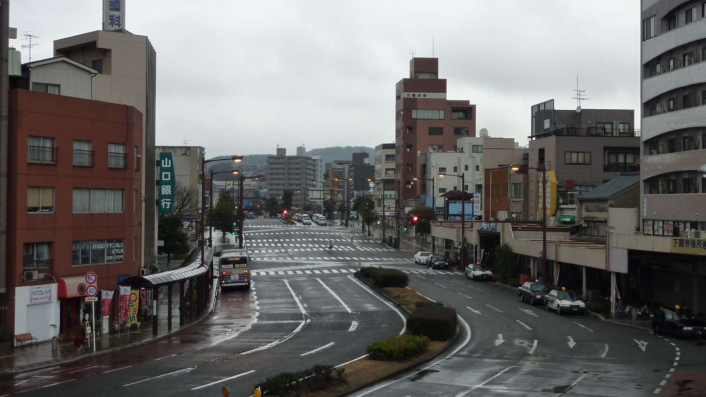 Yamaguchi Prefectural Road No.57 Shimonoseki Port Line (Nabe-cho, Shimonoseki City, Yamaguchi Japan)